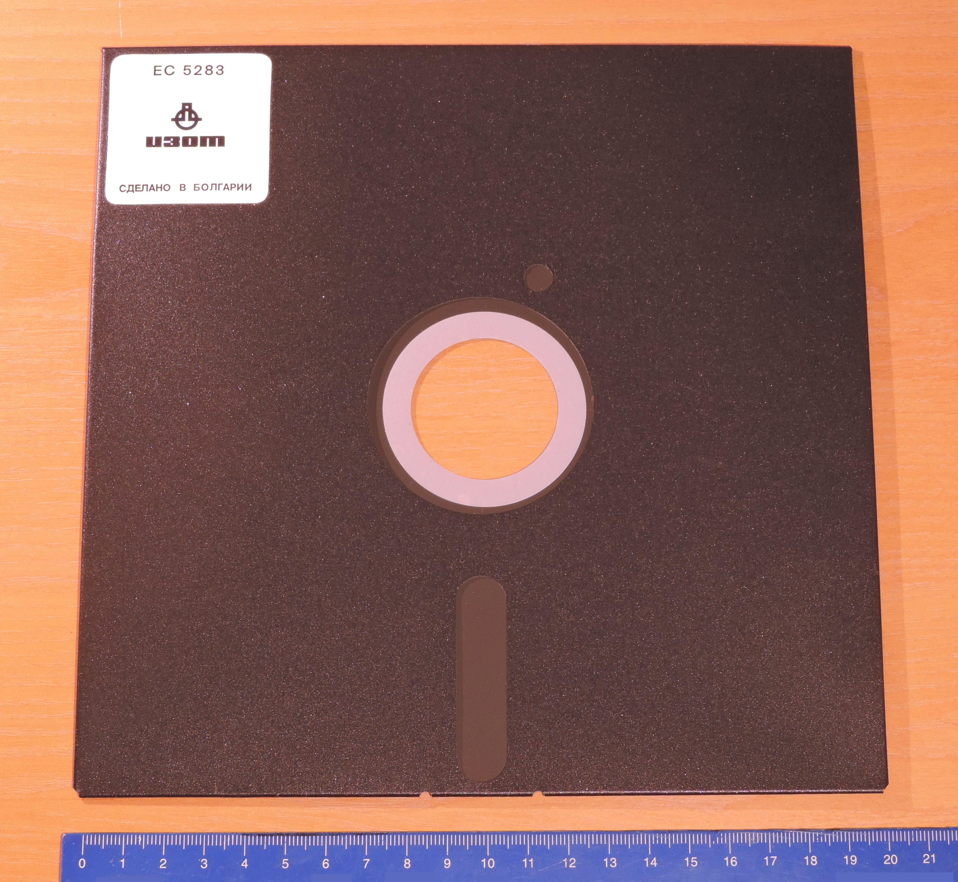 An 8-inch floppy disk, produced by IZOT plant, Bulgaria.